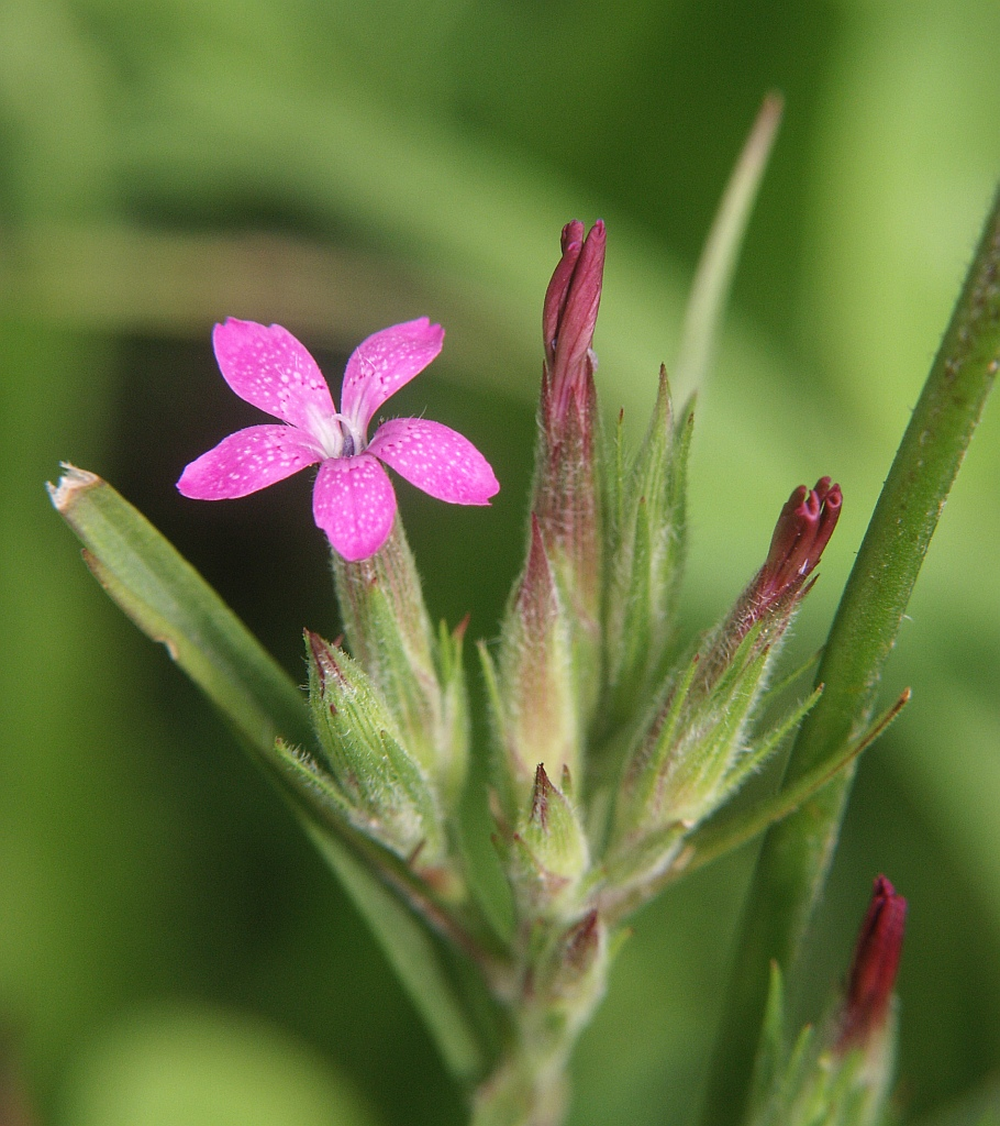 Dianthus armeria